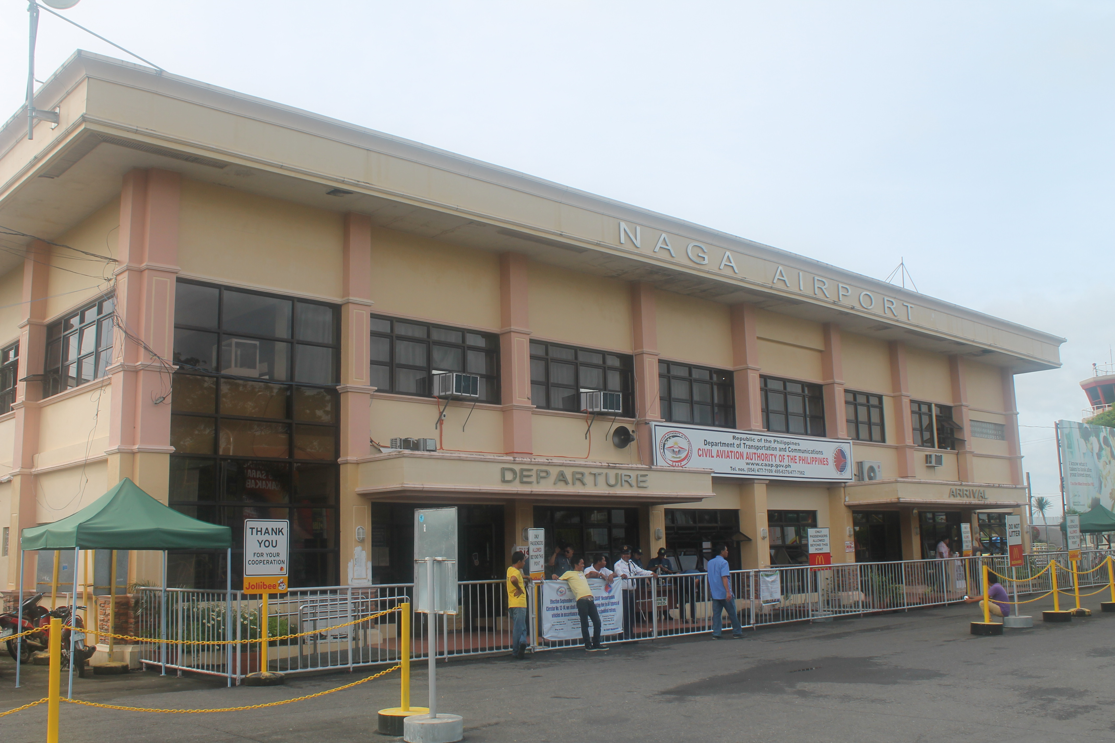 Passenger terminal building of Naga Airport in Bicol, PhilippinesTagalog: Gusali ng pampasaherong terminal ng Paliparan ng Naga sa Bikol, Pilipinas